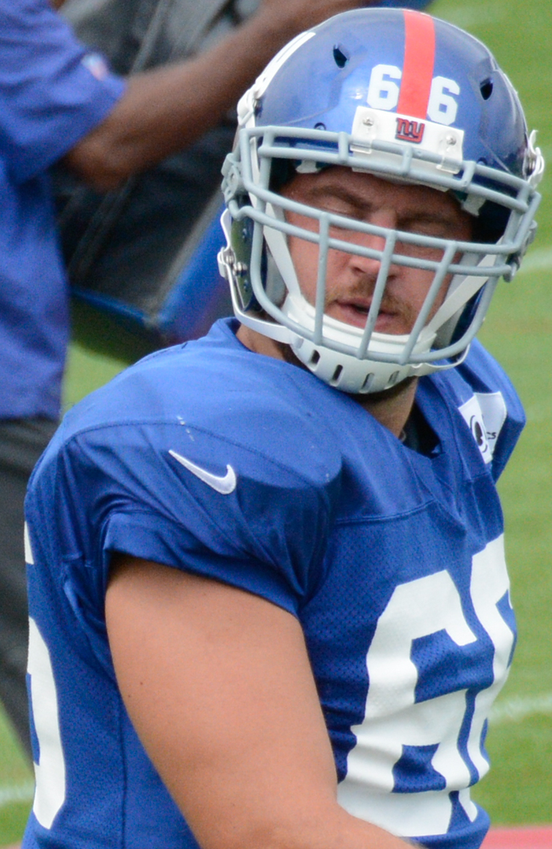 New York Giants training camp